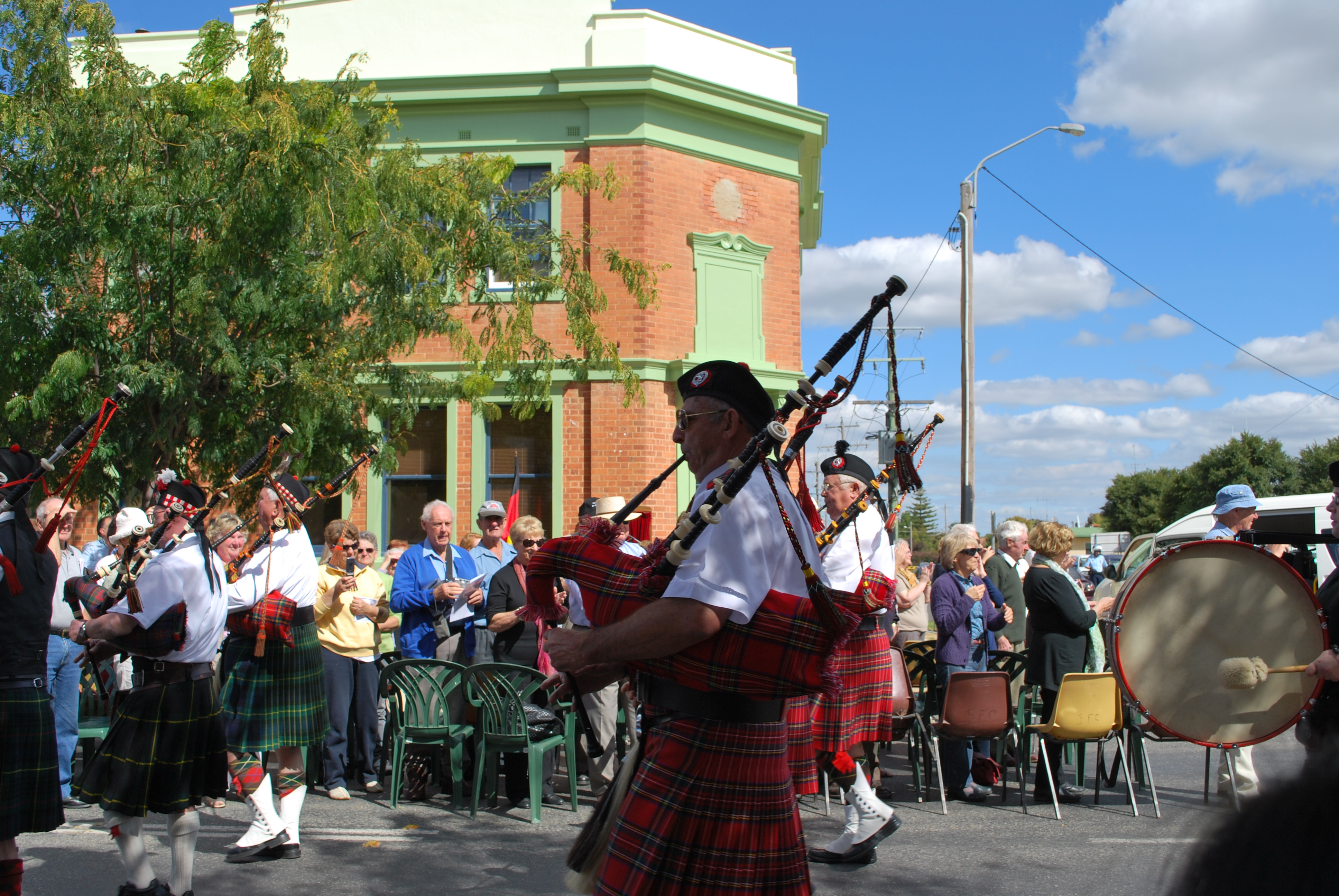 Emergency Services parade at an event commemorating the 150th anniversary of the New South Wales Police Force at Berrigan, New South Wales